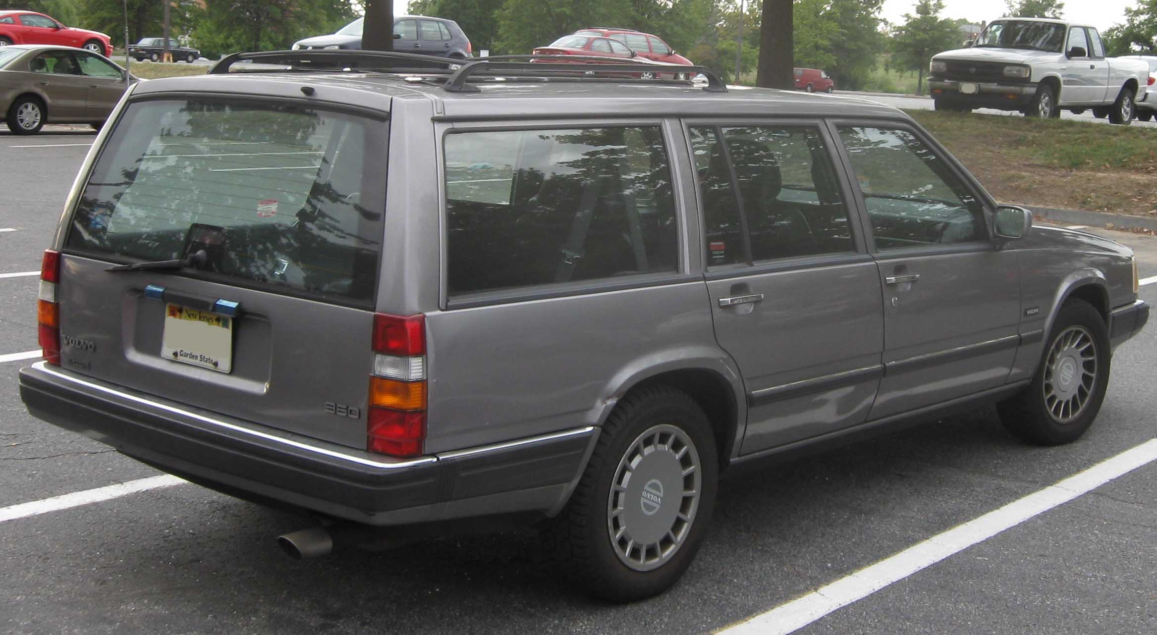 Volvo 960 photographed in College Park, Maryland, USA.